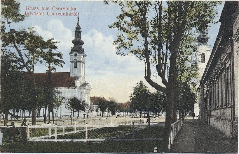 the razred evangl and reformiert church